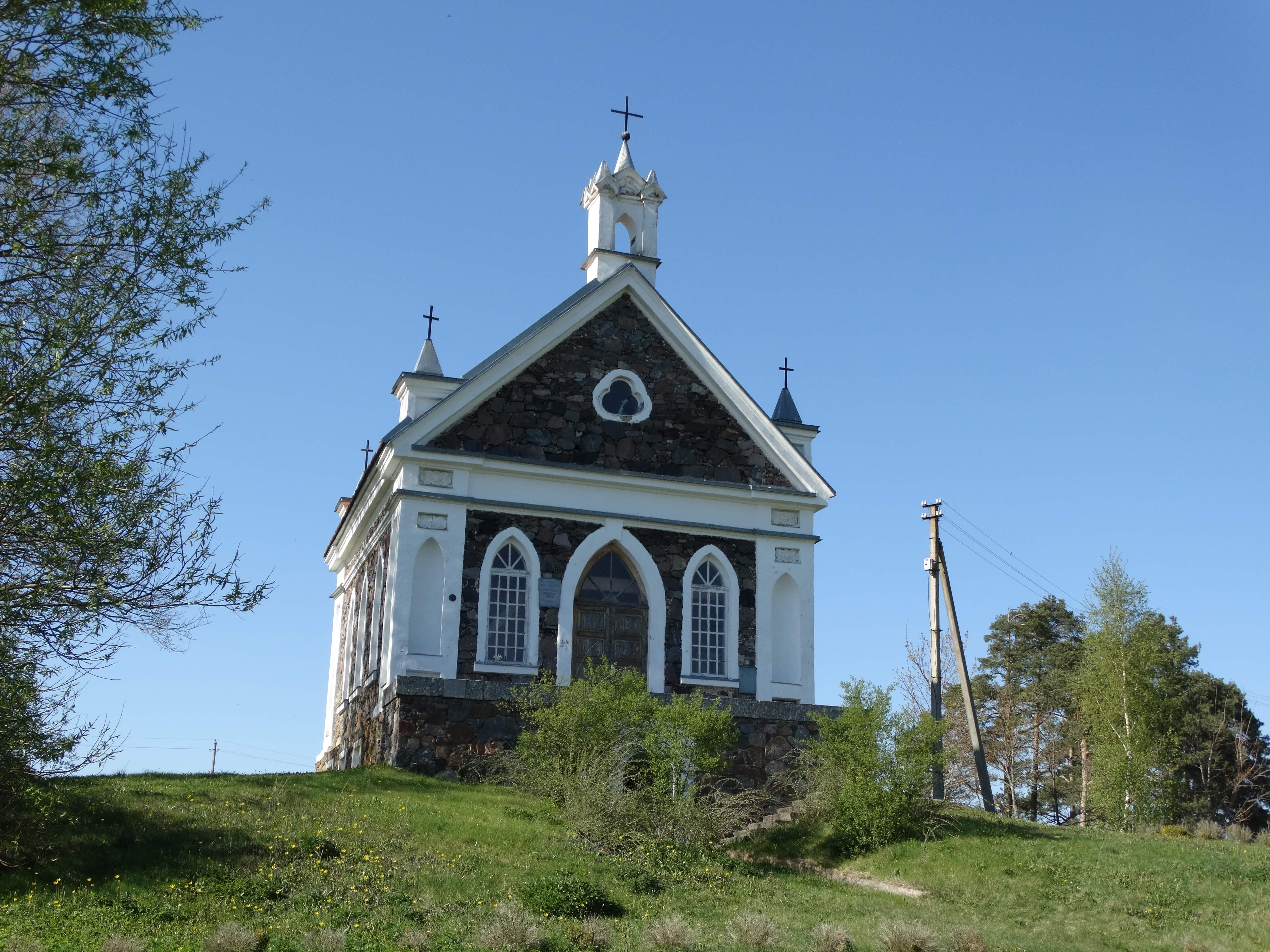 Chapel in Rodai, Panevėžys District, Lithuania